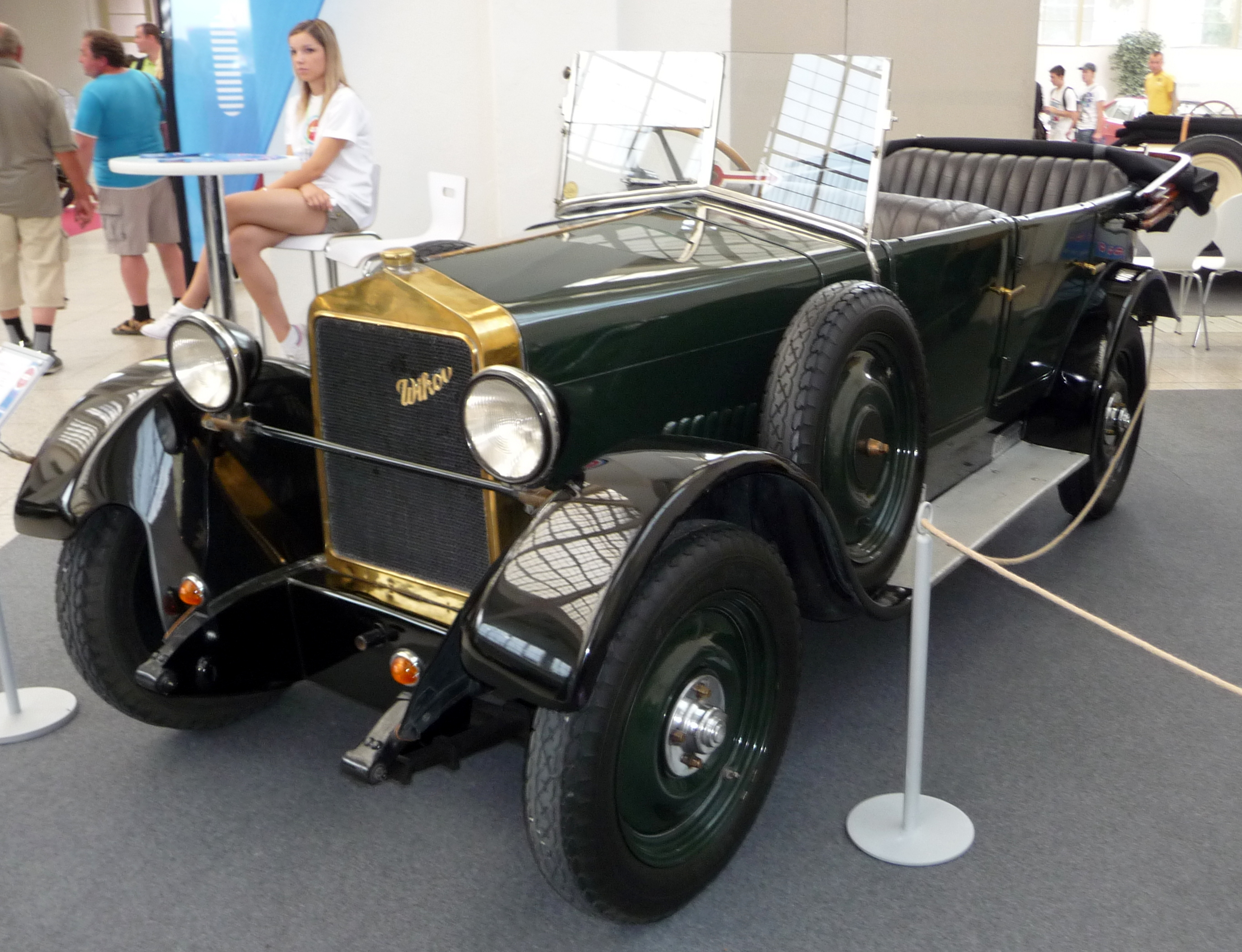 Wikov IV/18, year 1922, Classic Show Brno 2011, The Brno Exhibition Grounds -10 -5 -3 -2 ◄ ► +2 +3 +5 +10